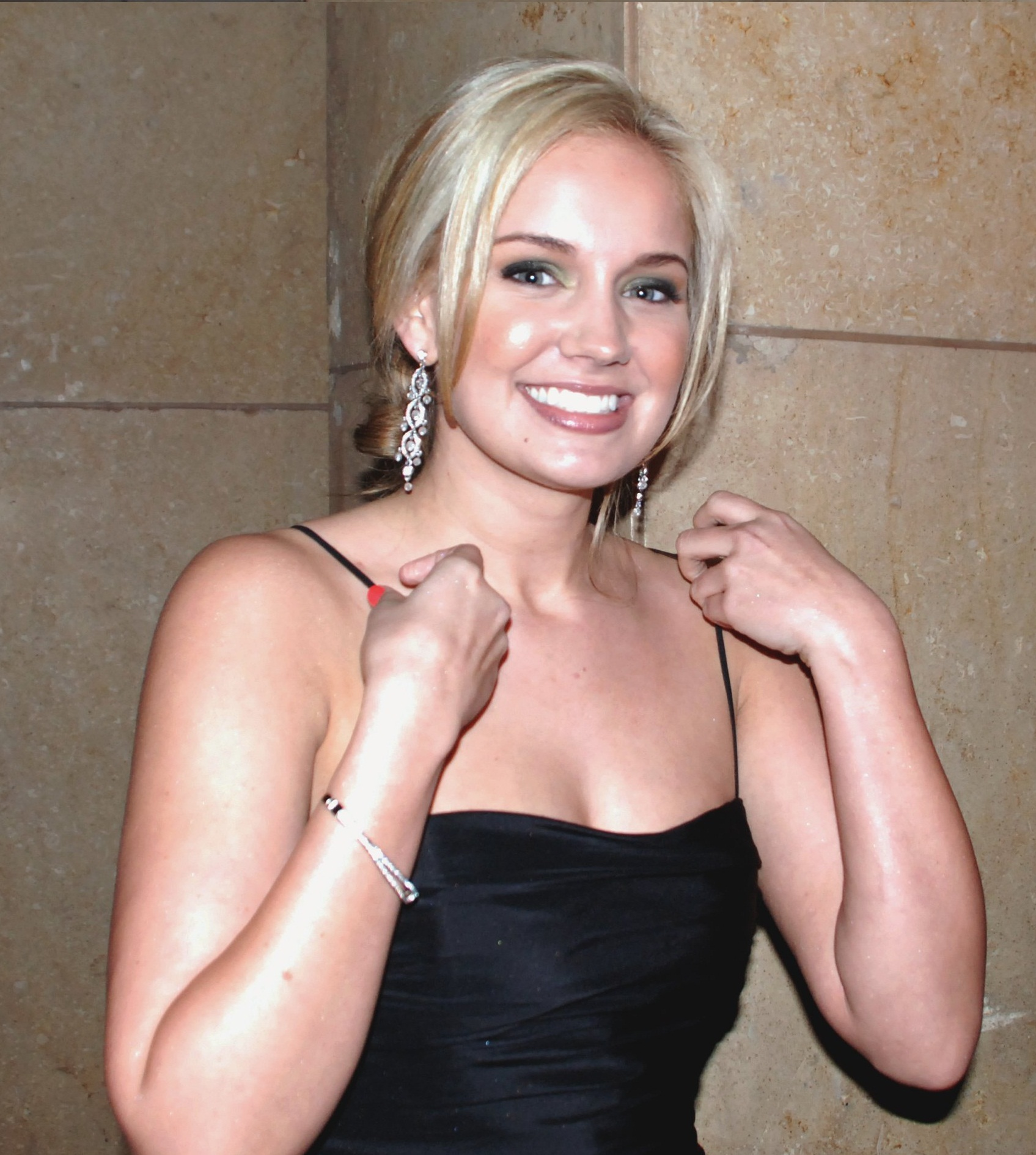 Tiffany Thornton Having Fun With Her Fans Outside Kodak Theatre Just After The Hannah Montana The Movie Premiere, Hollywood 4/2/2009